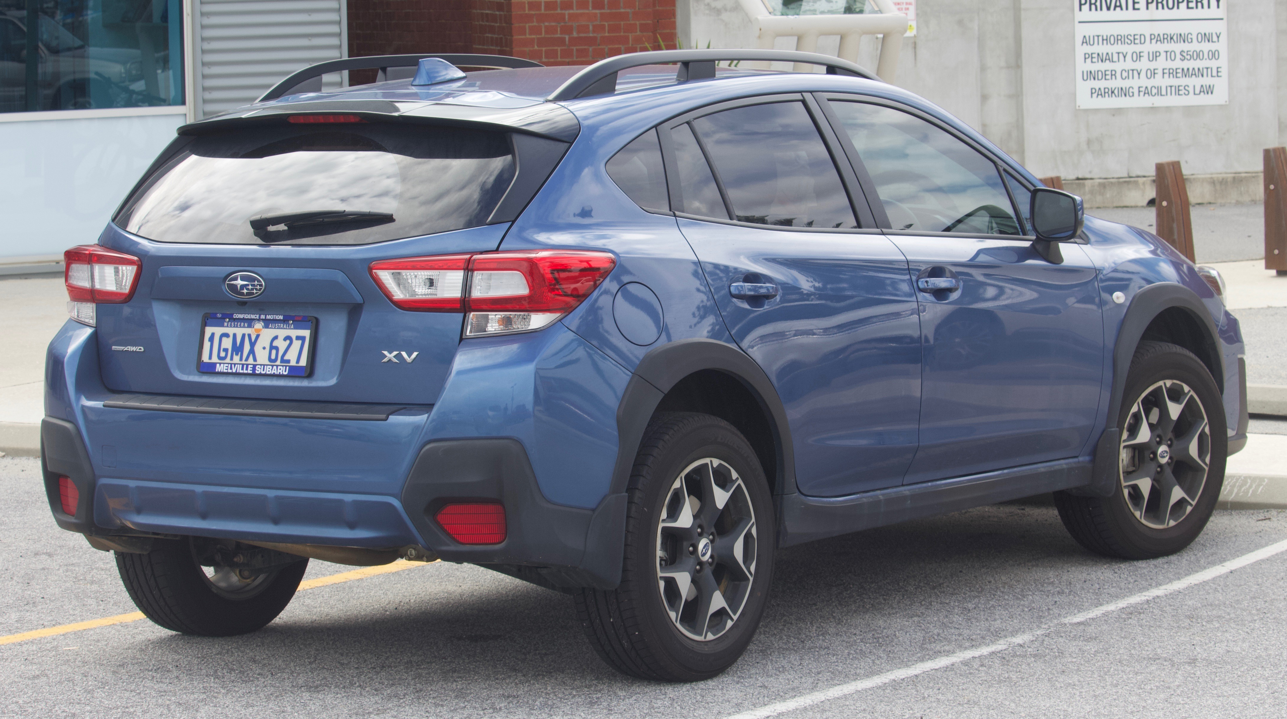 2018 Subaru XV (GT7) 2.0i wagon. Photographed in Fremantle, Western Australia, Australia.